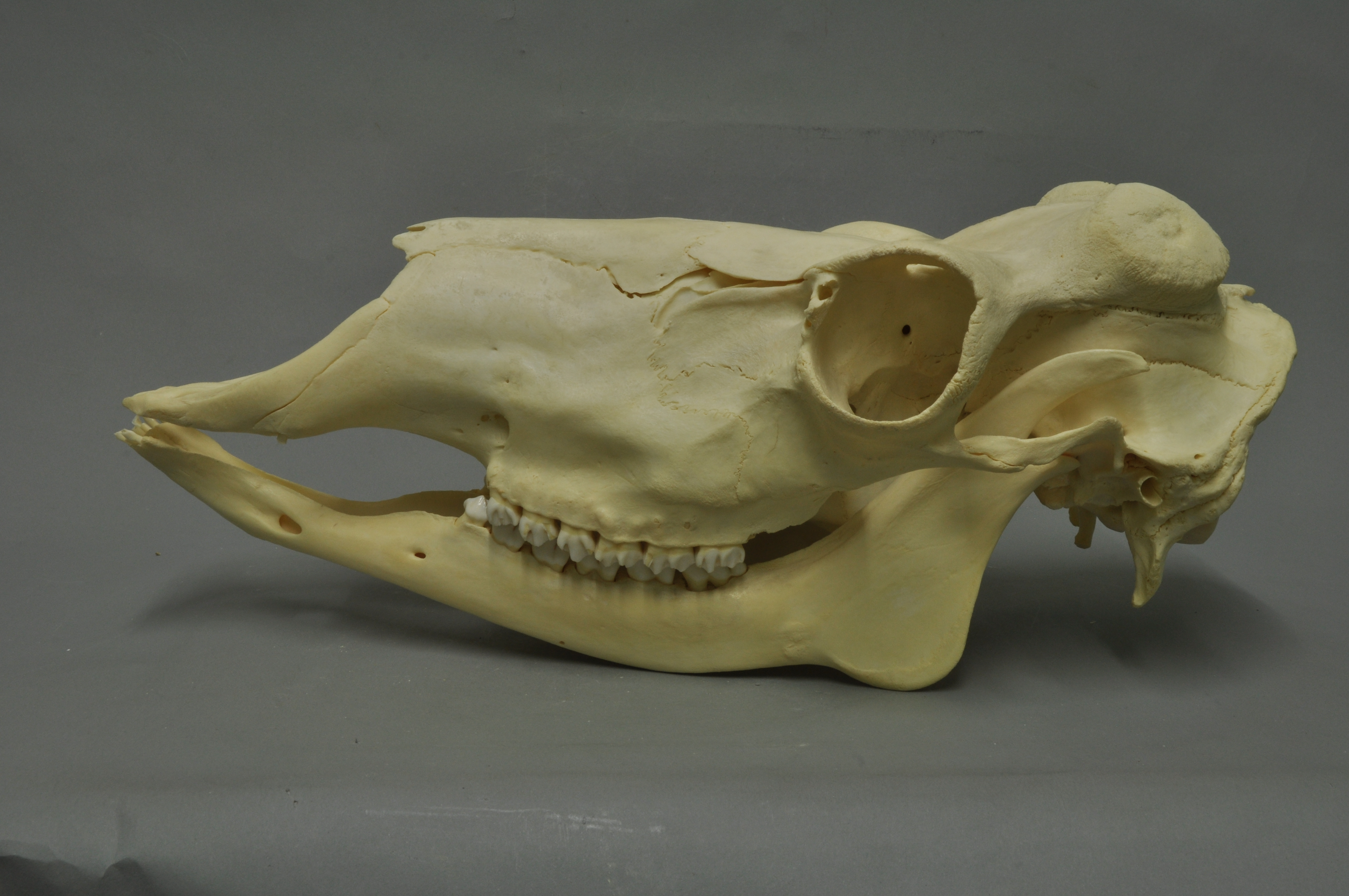 reindeer Rangifer tarandus 01 , skull, Coll. Museum Wiesbaden